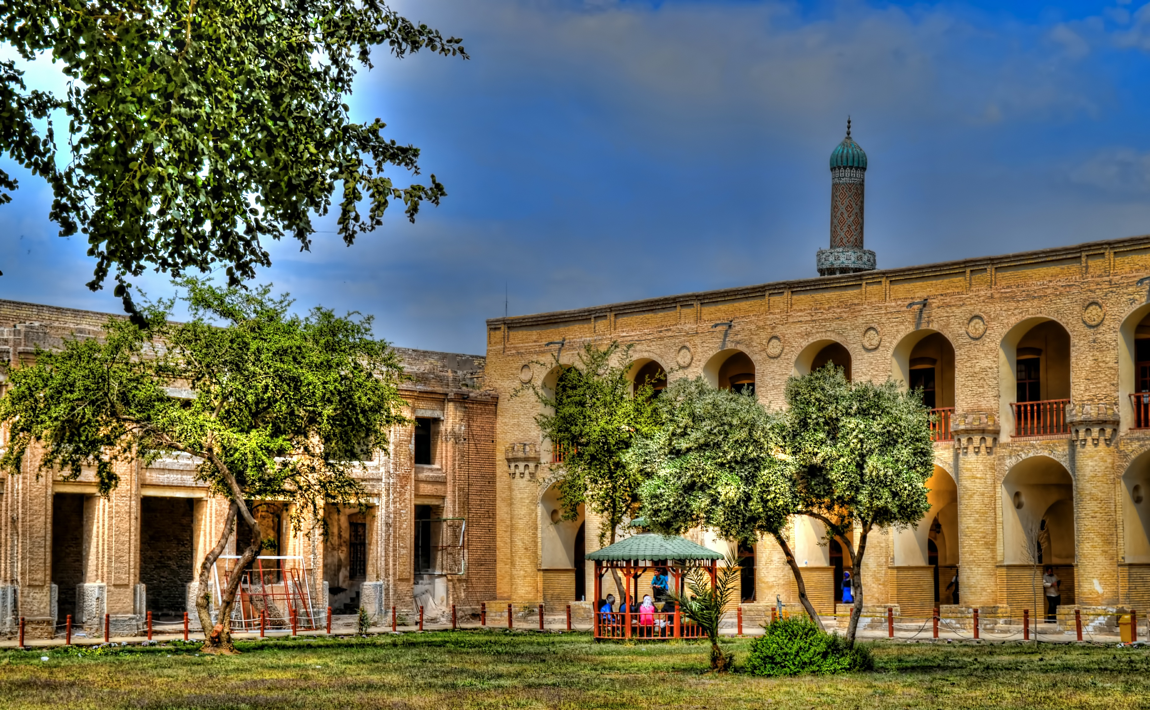 Al Qishlah in Baghdad